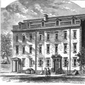 A testament to the wealth of New York's merchants of the 18th century; its approaches suited to its grandeur. Fluted columns surmounted with armorial bearings, richly carved and ornamented, upheld its broad portico; and the heads of lions, cut from the freestone, looked down from between the windows.